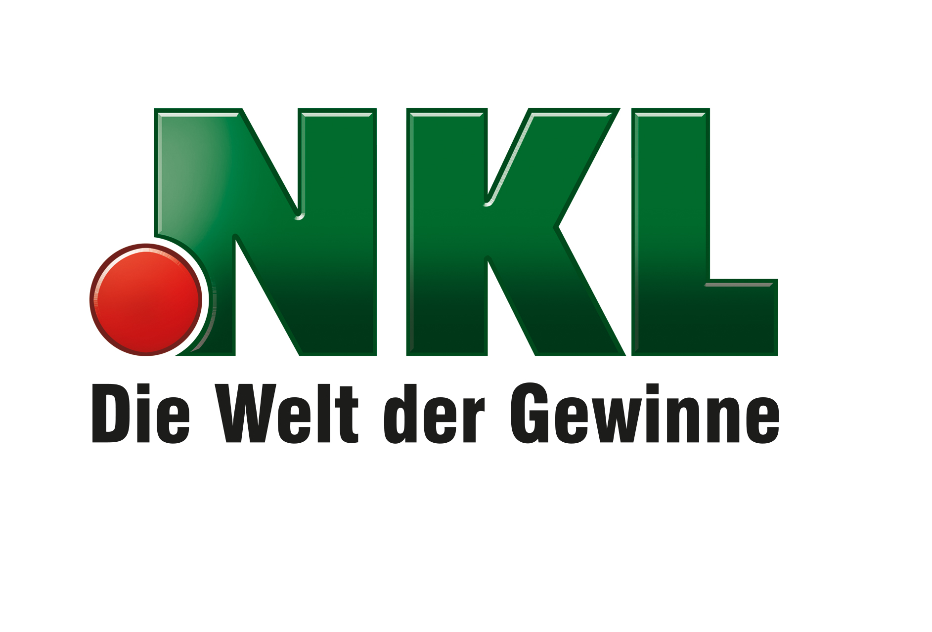 brand label